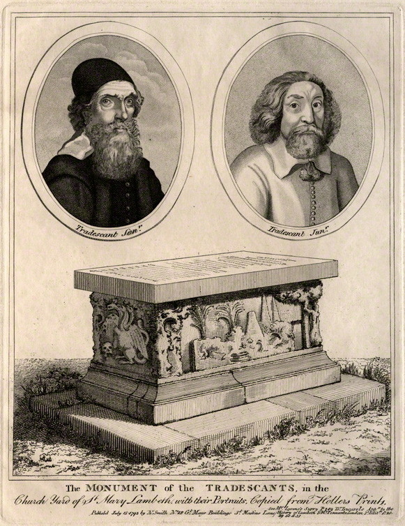 Tomb of John Tradescant the elder and John Tradescant the younger, etching after Wenceslaus Hollar. Original at National Portrait Gallery. [1]